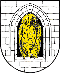 Coat of Arms of Rodewald First upload in de-wp: Maxx96 (09:30, 17. Aug. 2004 - Bild:Rowole.jpg)